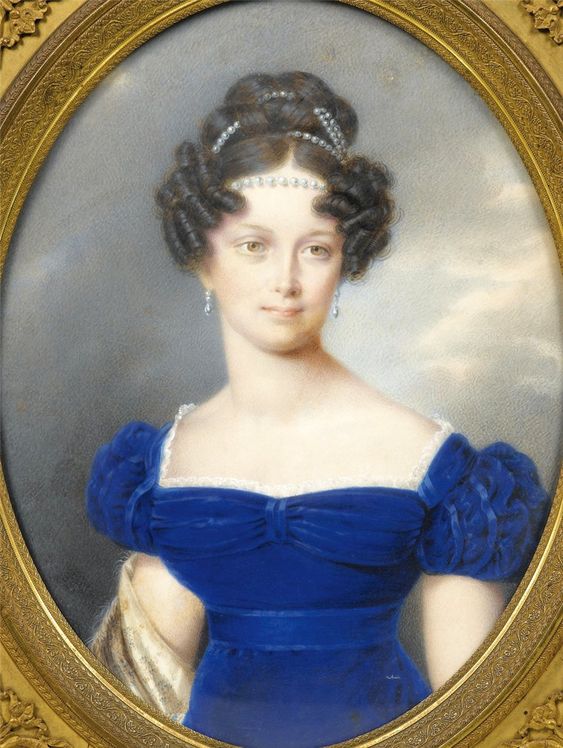 Henrietta of Nassau - Duchess of Teschen